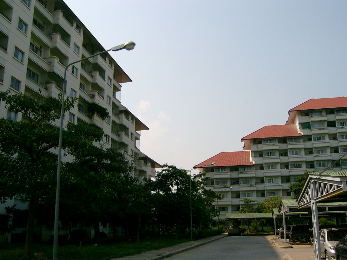 Staff Dormitory